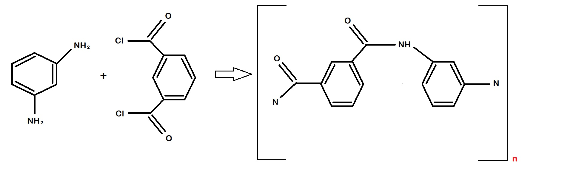 Nomex Reaction